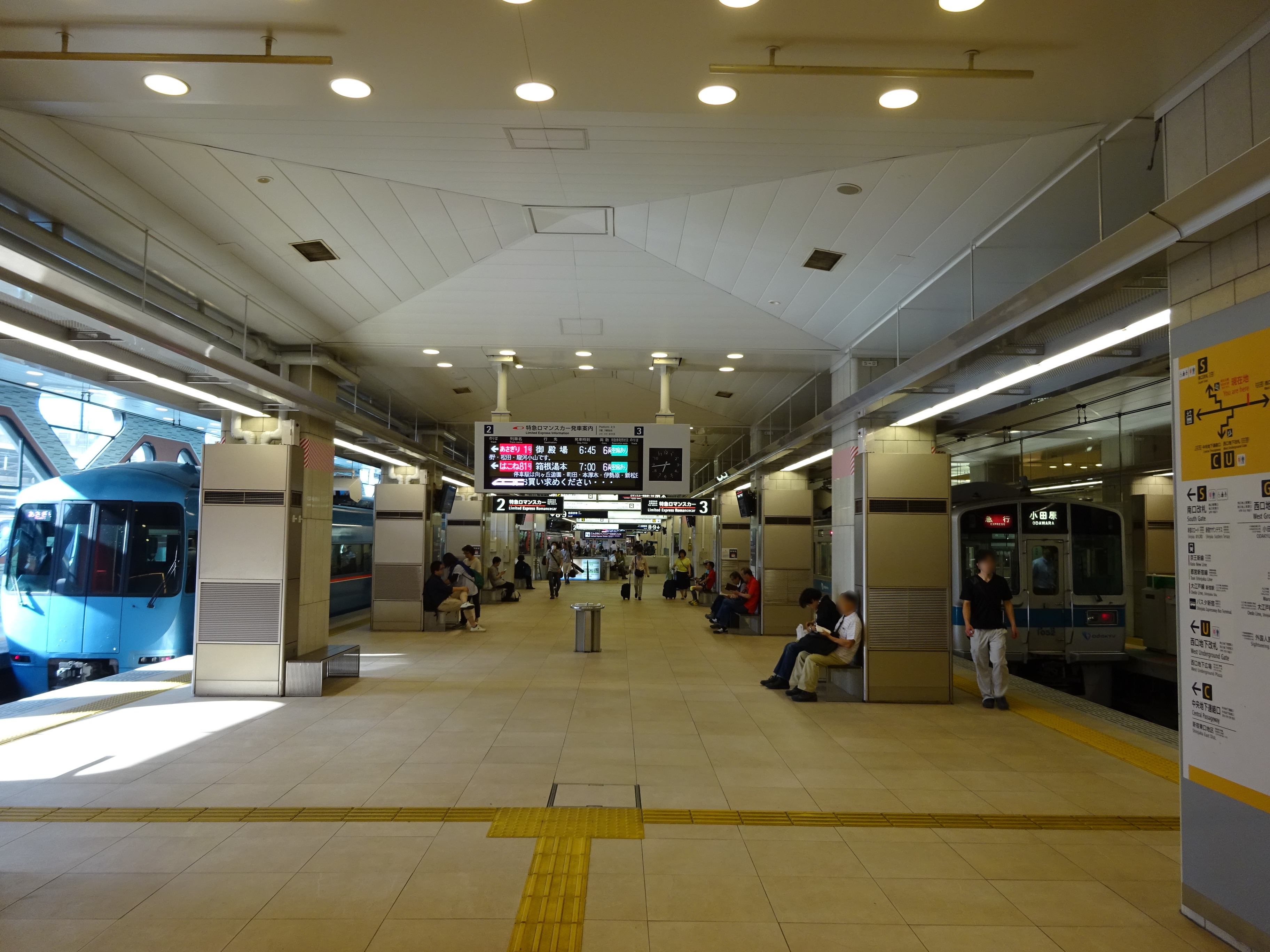 Platforms of Shinjuku Station(1st Floor, Odakyu)